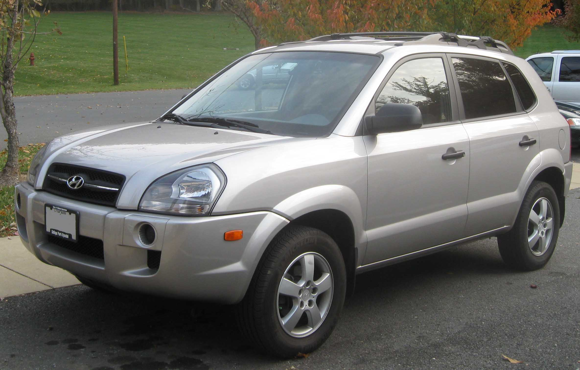 Hyundai Tucson photographed in Olney, Maryland, USA.